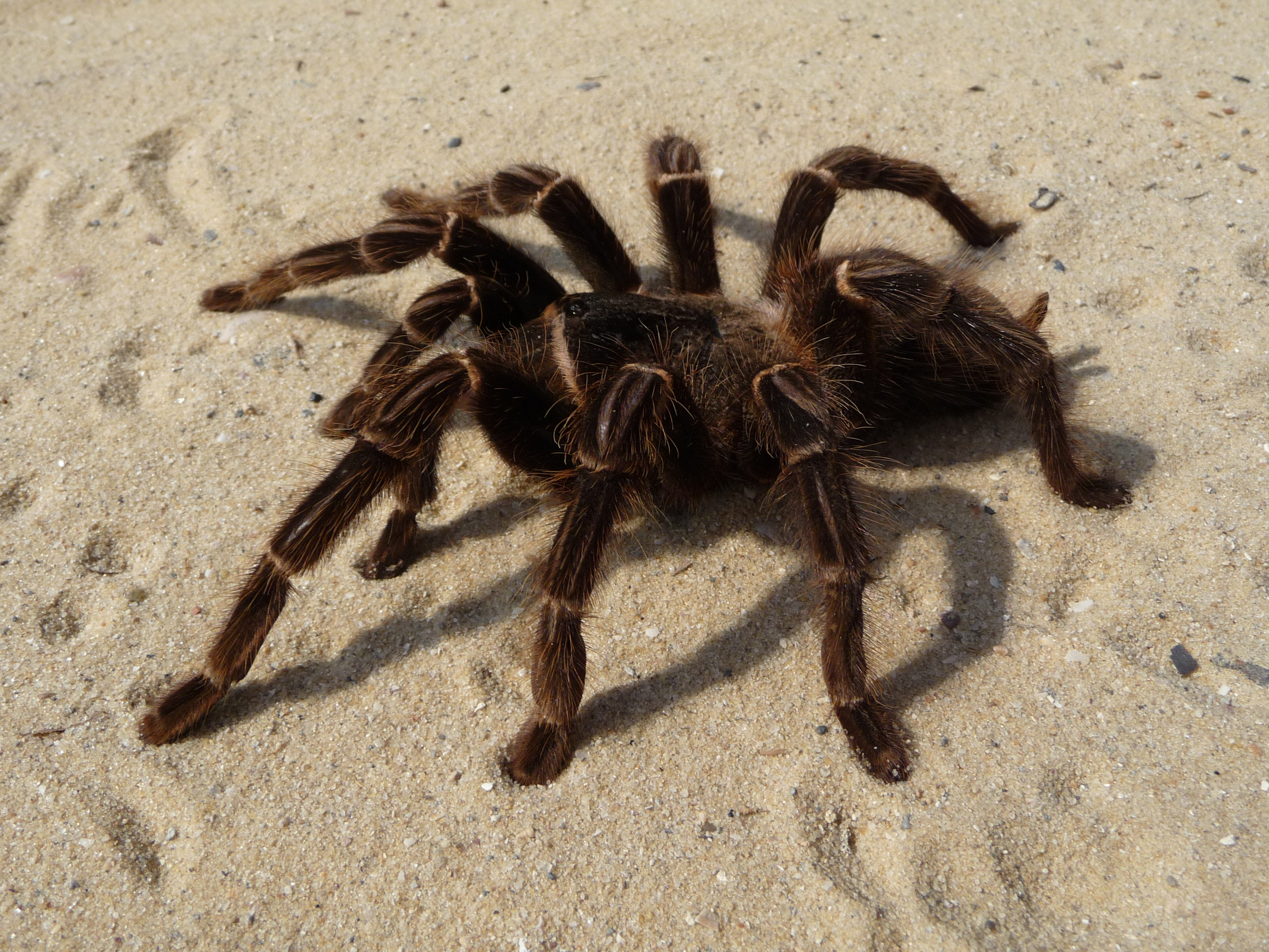 Brazilian salmon pink tarantuala (aslo birdeater) female (Lasiodora parahybana)